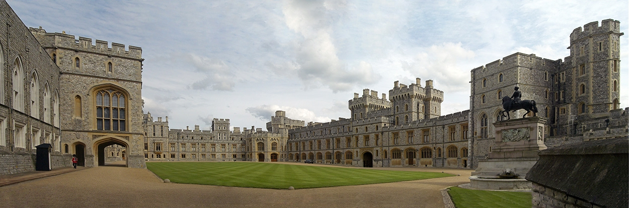 Windsor Castle - panorama from 3 photos